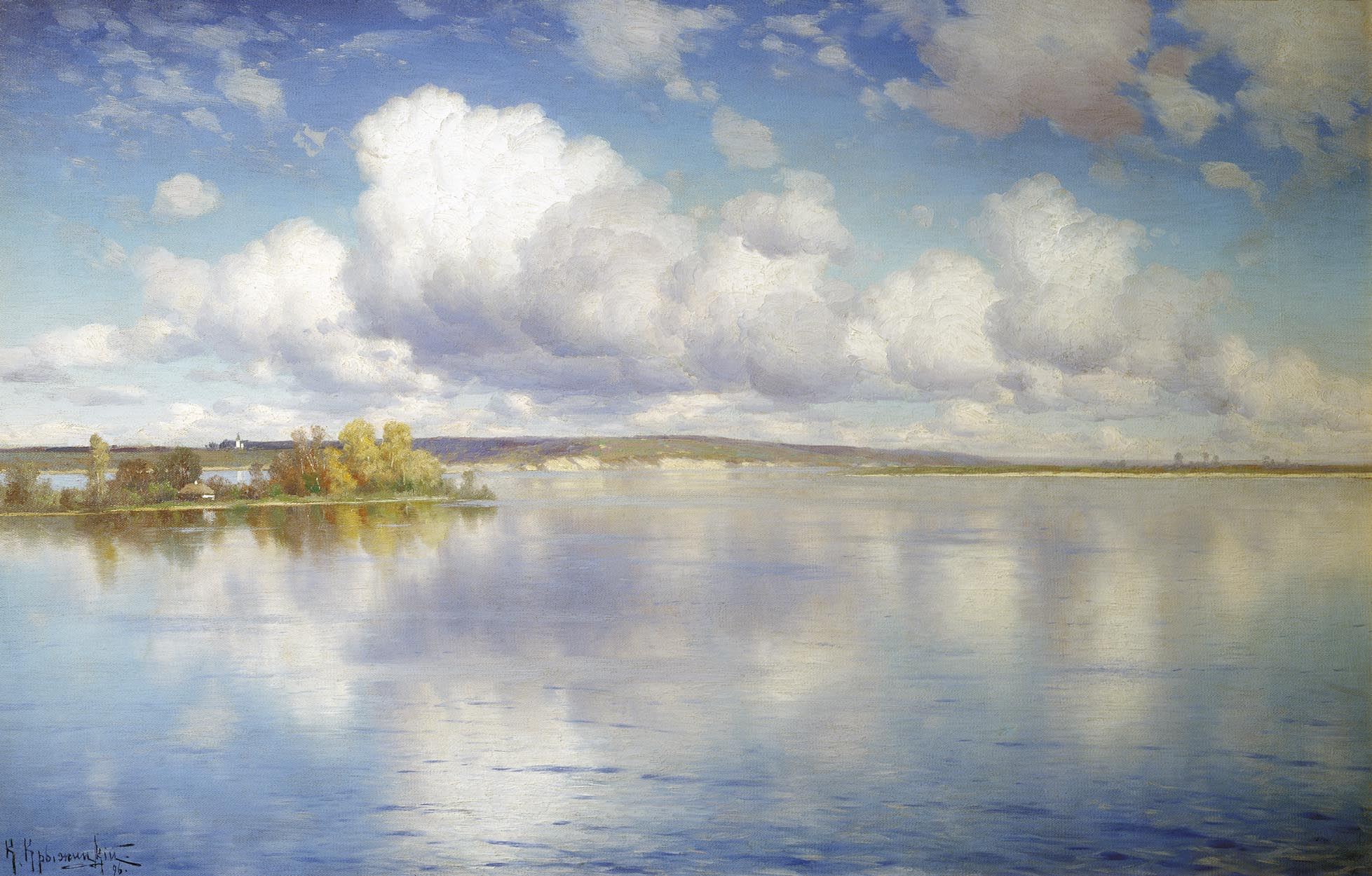 The Lake